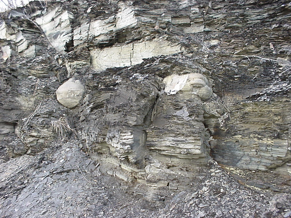 Older member of West Falls Formation in Elk Group